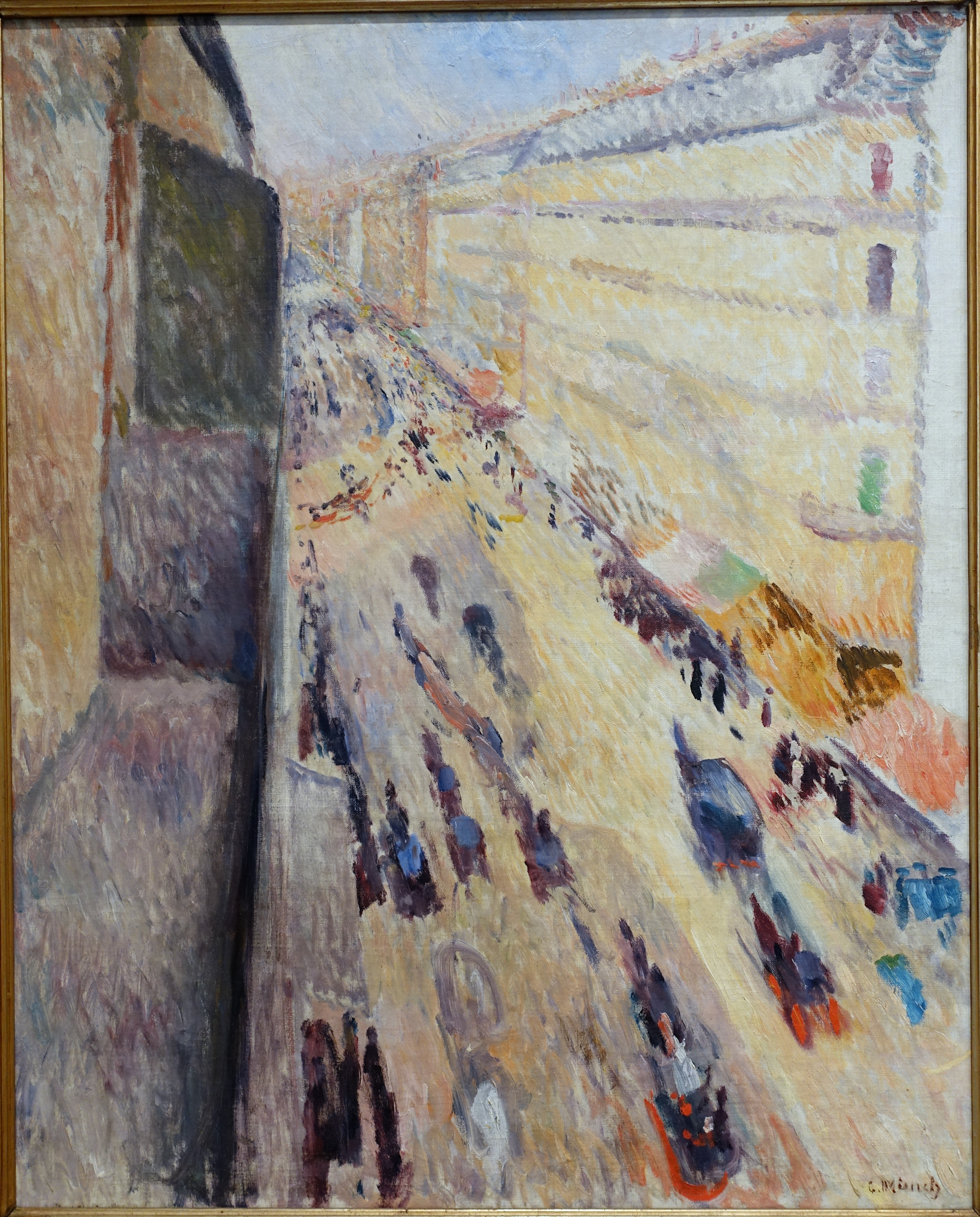 Exhibit in the Fogg Art Museum, Harvard University, Cambridge, Massachusetts, USA. This artwork is in the public domain because the artist died more than 70 years ago.